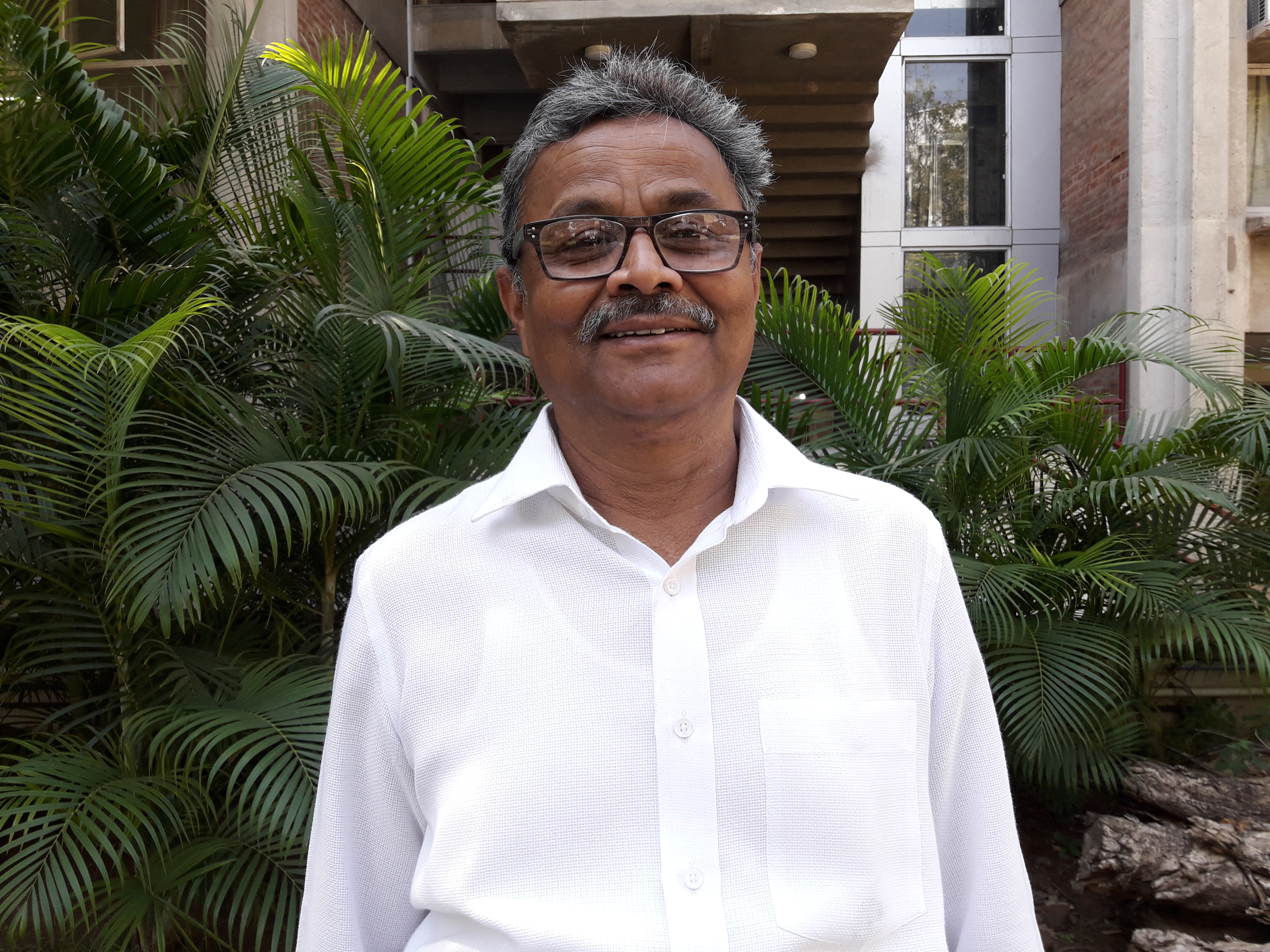 Gujarati author Pravin Pandya at Gujarati Sahitya Parishad on 17 December 2016